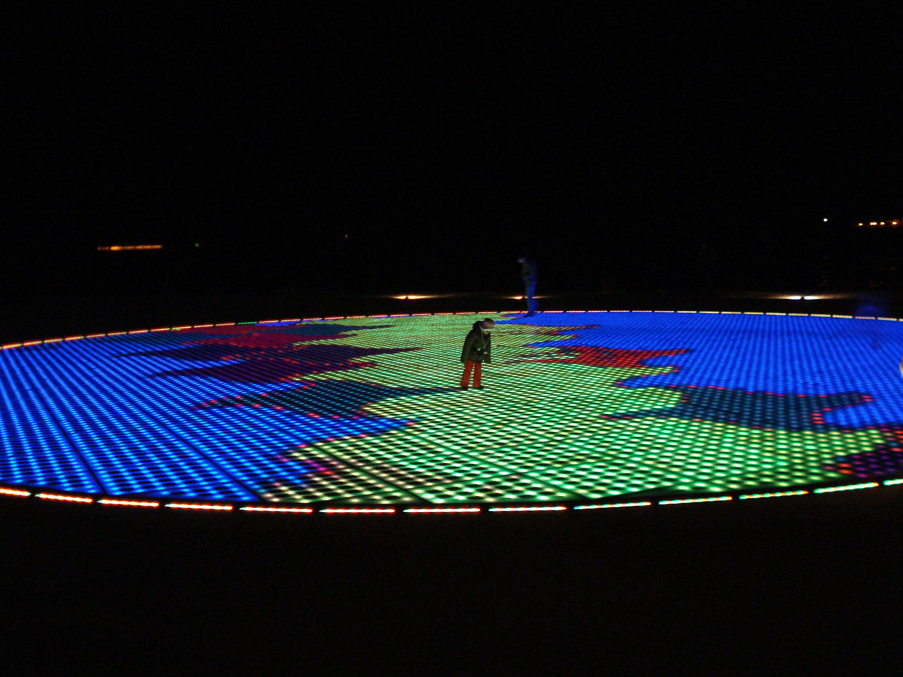 Monument to the Sun in Zadar, Croatia